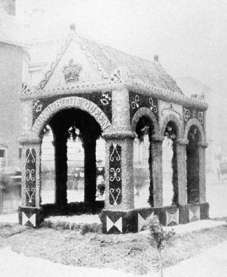 Well or Tap dressing in St John's Street in Wirksworth in Derbyshire